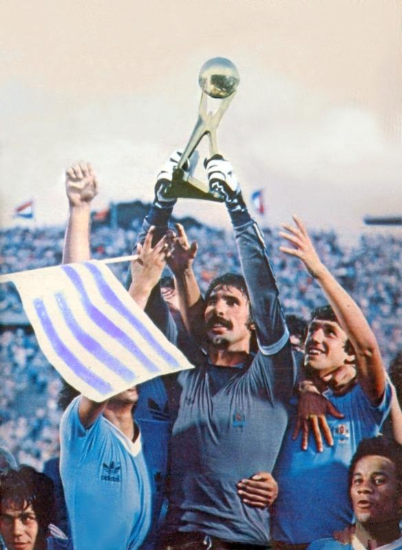 Rodolfo Rodríguez holding the trophy "Copa de Oro de Campeones Mundiales" (Mundialito 1980).